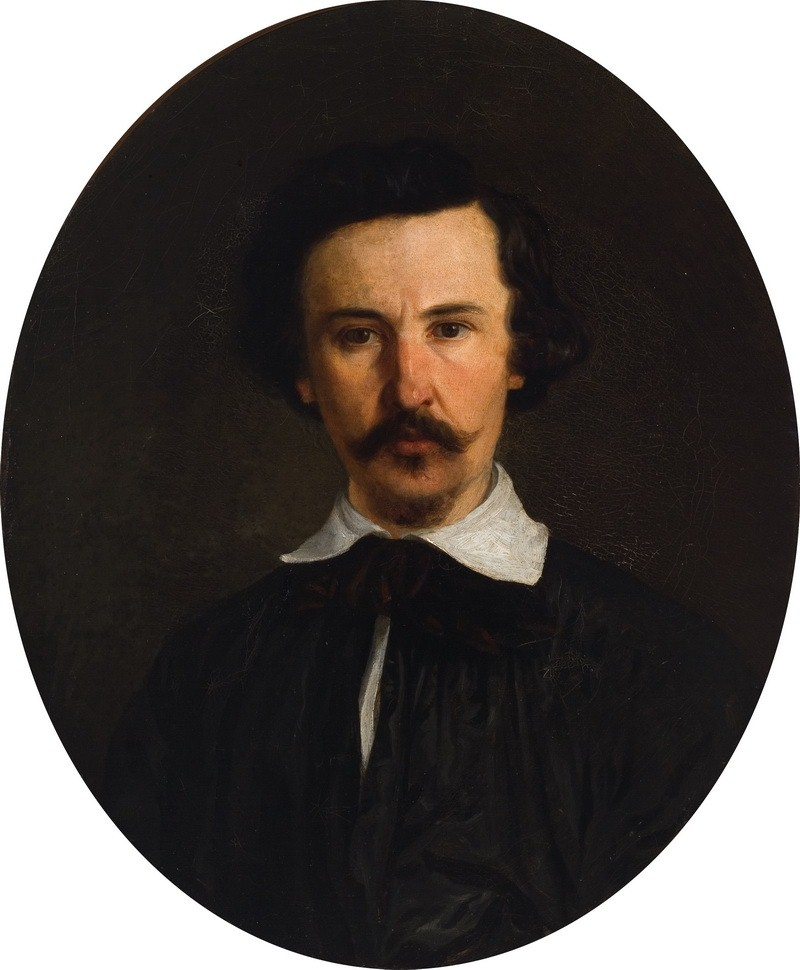 Edward Bonifacy Pawlovich, self-portrait, oil on canvas, 1853, National Museum of LithuaniaLietuvių: Paulavičius, Eduardas Bonifacas. Autoportretas. 1853, drobė, aliejus.